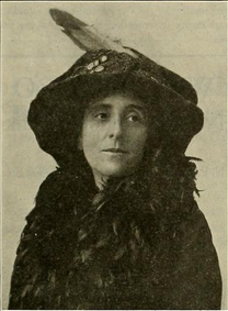 "THE WOMAN CITIZEN" Helen M. Todd Illinois factory inspector suffragette from Chicago Author: “Getting out the Vote: An Account of a Week’s Automobile Campaign by Women Suffragists.” American Magazine 72 (September 1911)